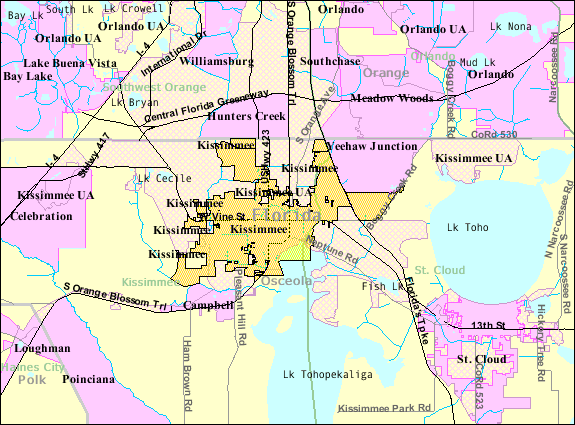 Kissimmee, Florida